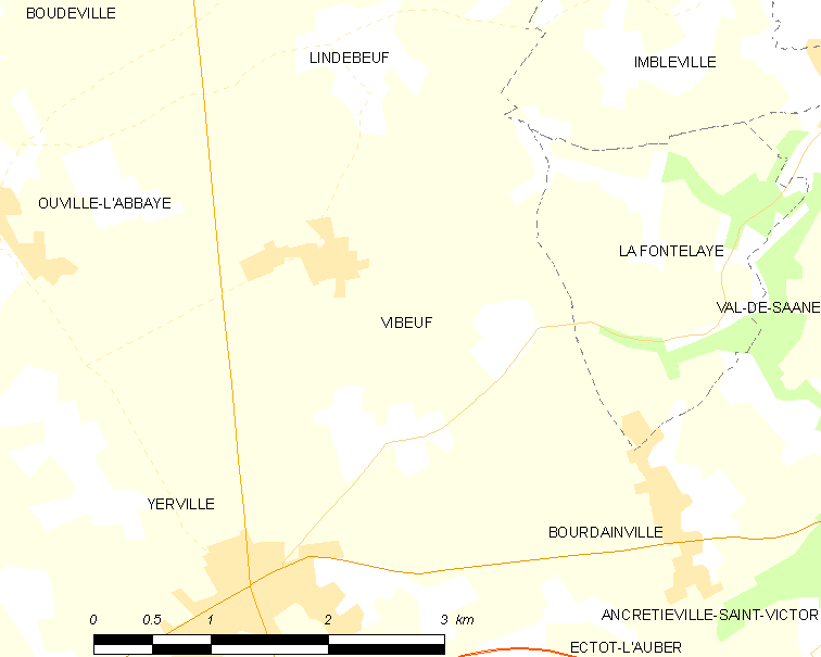 Map of French municipality Vibeuf